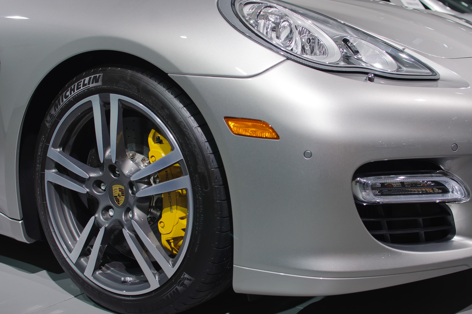 Details of the wheel and the brake caliper. Starting price for a Panamera Turbo S is $173,200, and this particular example comes in at $205,015! Sure, a Panamera is a very luxurious, very sporty car, but I would rather pass, and if I ever got rich and vain enough for a Porsche, would settle for a basic Cayman or 911 that would be far more fun to drive at less than half the price. Seen at Los Angeles International Auto Show, 2011.